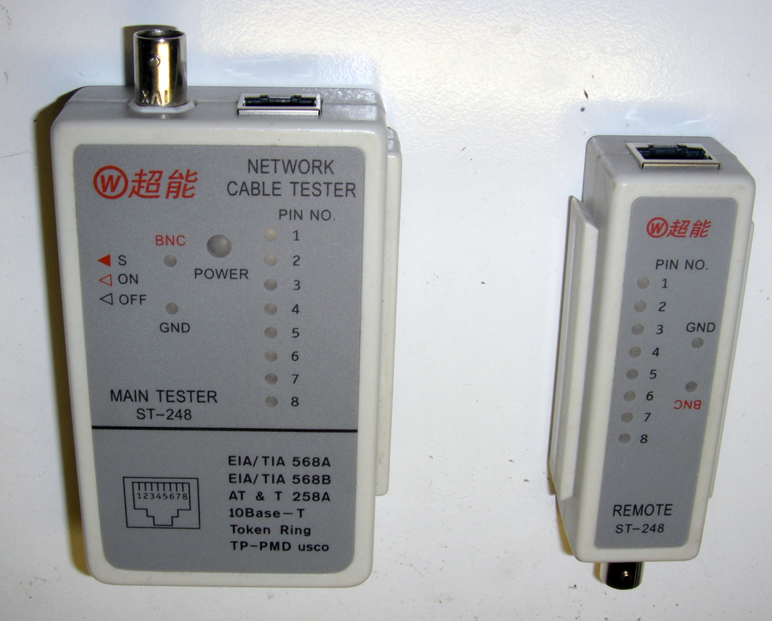 Network Cable Tester